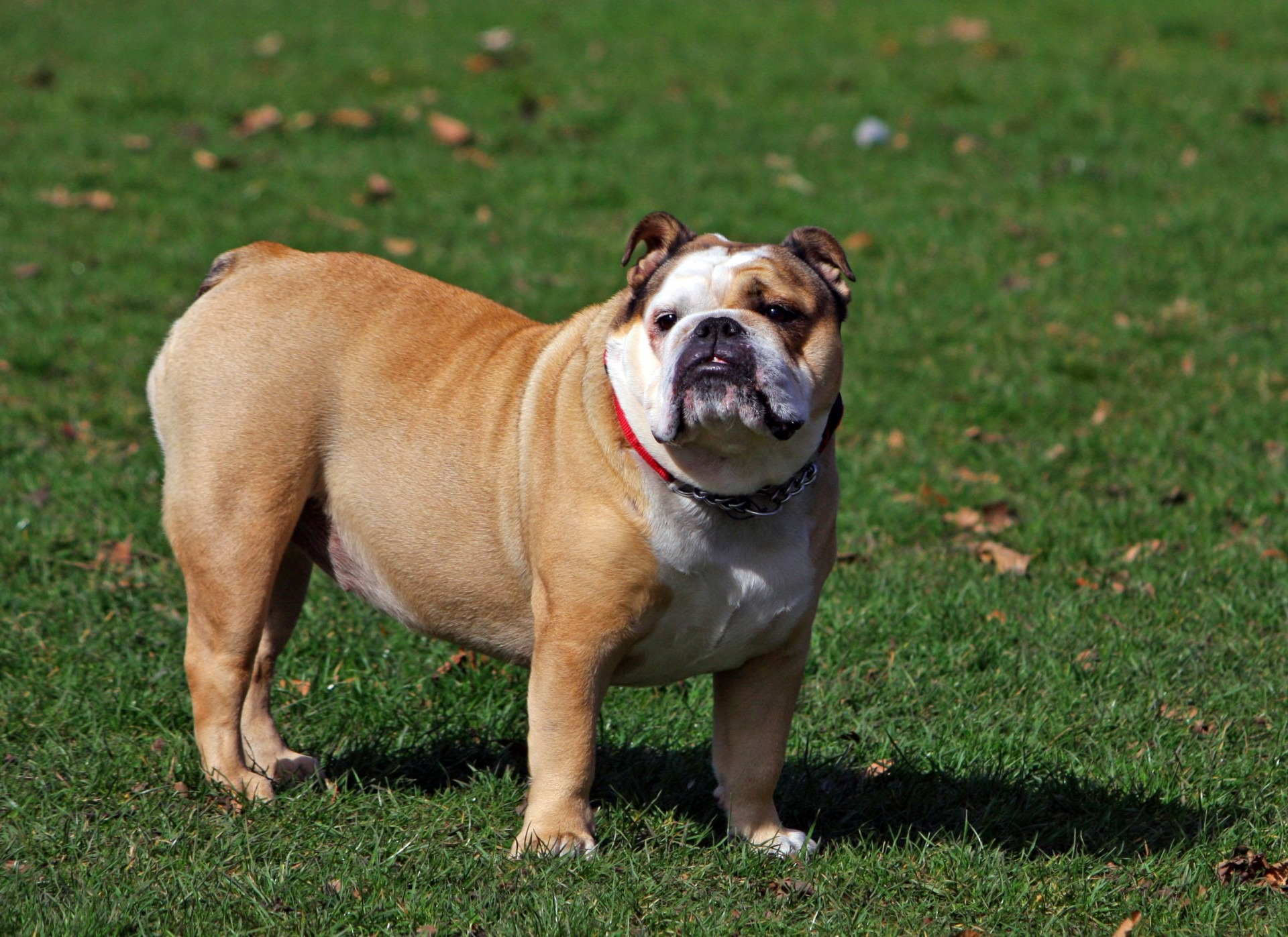 English Bulldog